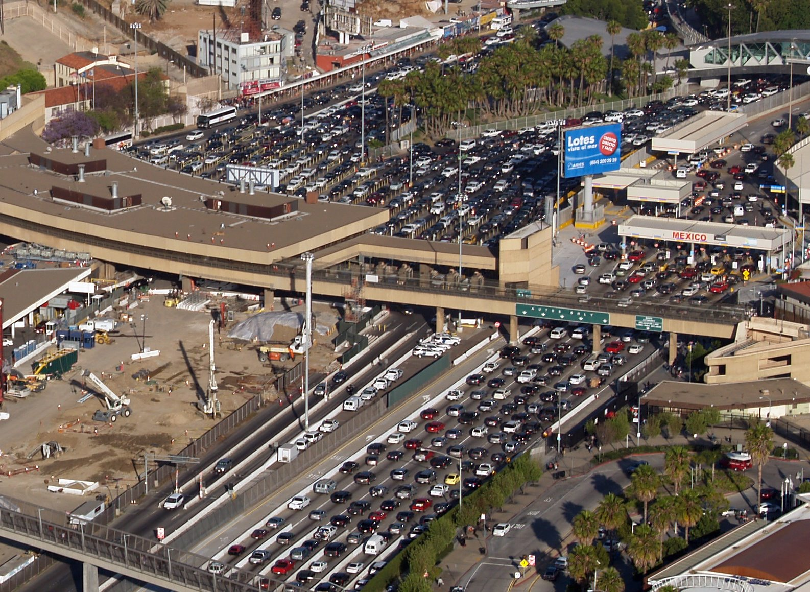 Aerial view of the U.S. San Ysidro Port of Entry (left), and Méxican El Chaparral Point of Entry (right). The border crossing between San Diego, California and Tijuana, Baja California state. The NRHP-listed U.S. Inspection Station/U.S. Custom House is at top-left, in San Diego, California.